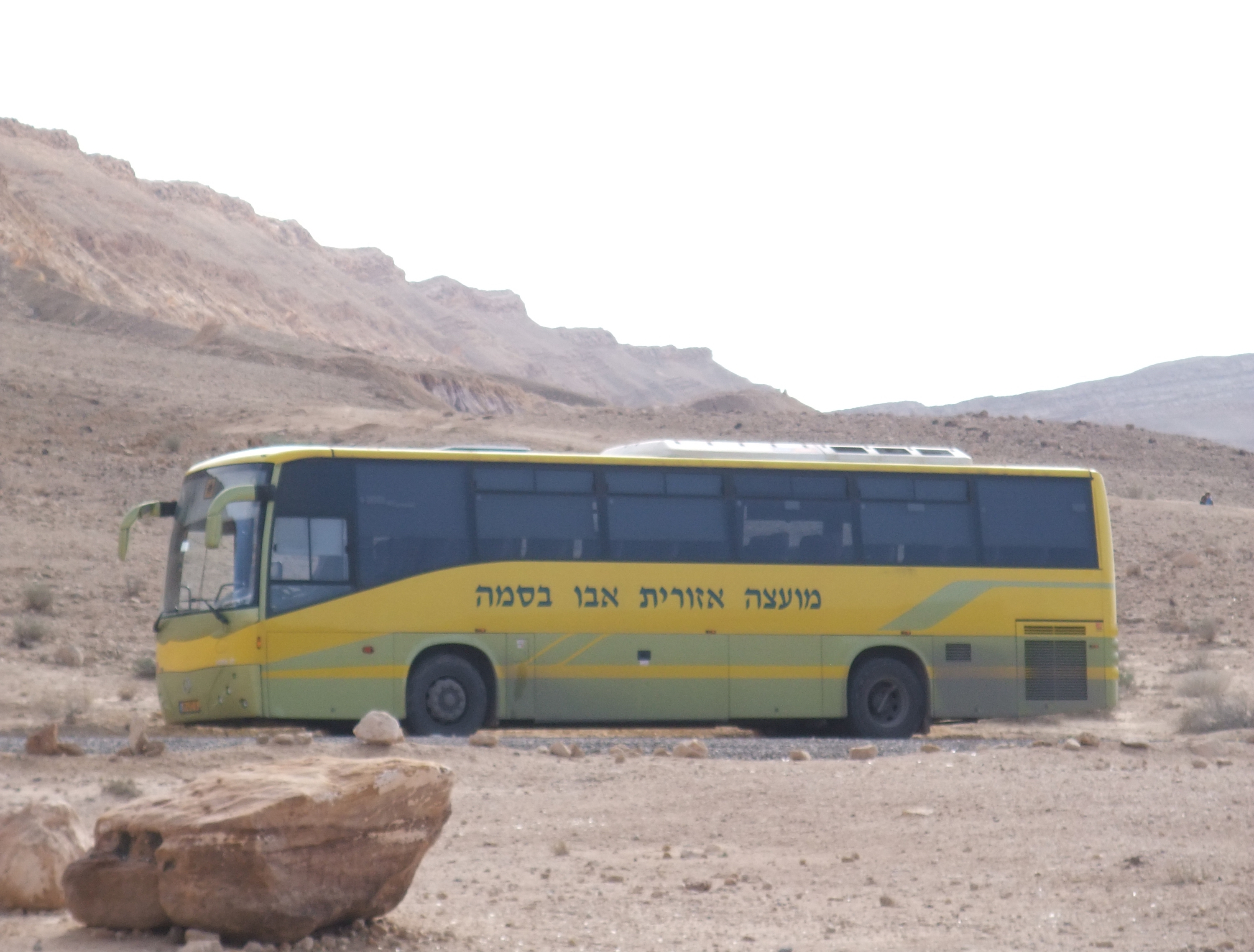 Abu Basma Regional Council's bus parks at Makhtesh Ramon